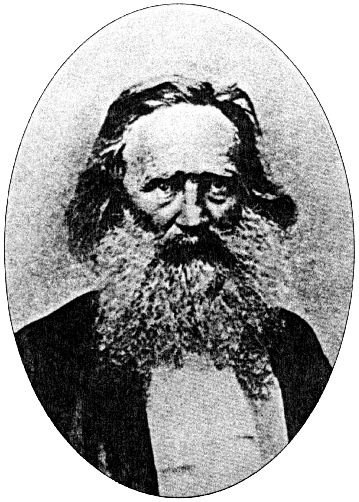 Photograph of Ferdinand Jacob Lindheimer (1802-1879)